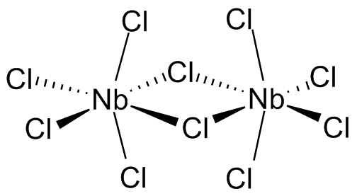 modified from